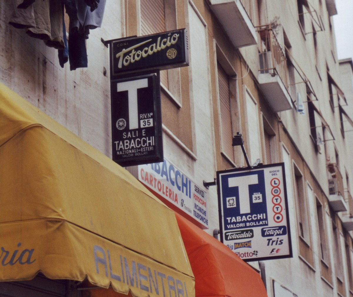 Italian Tobacco shop